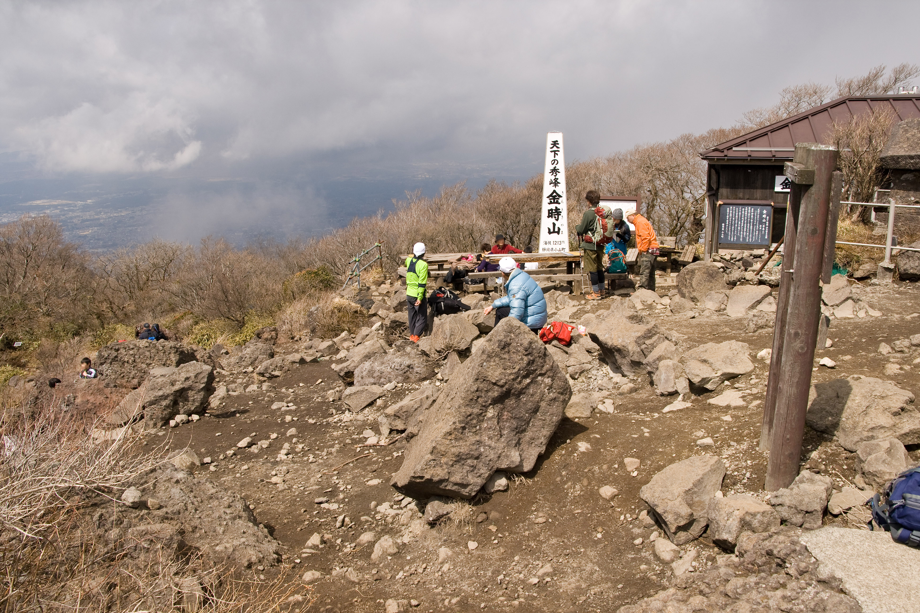 The summit of Mt.Kintoki, Hakone volcano, Kanagawa Pref., Japan.